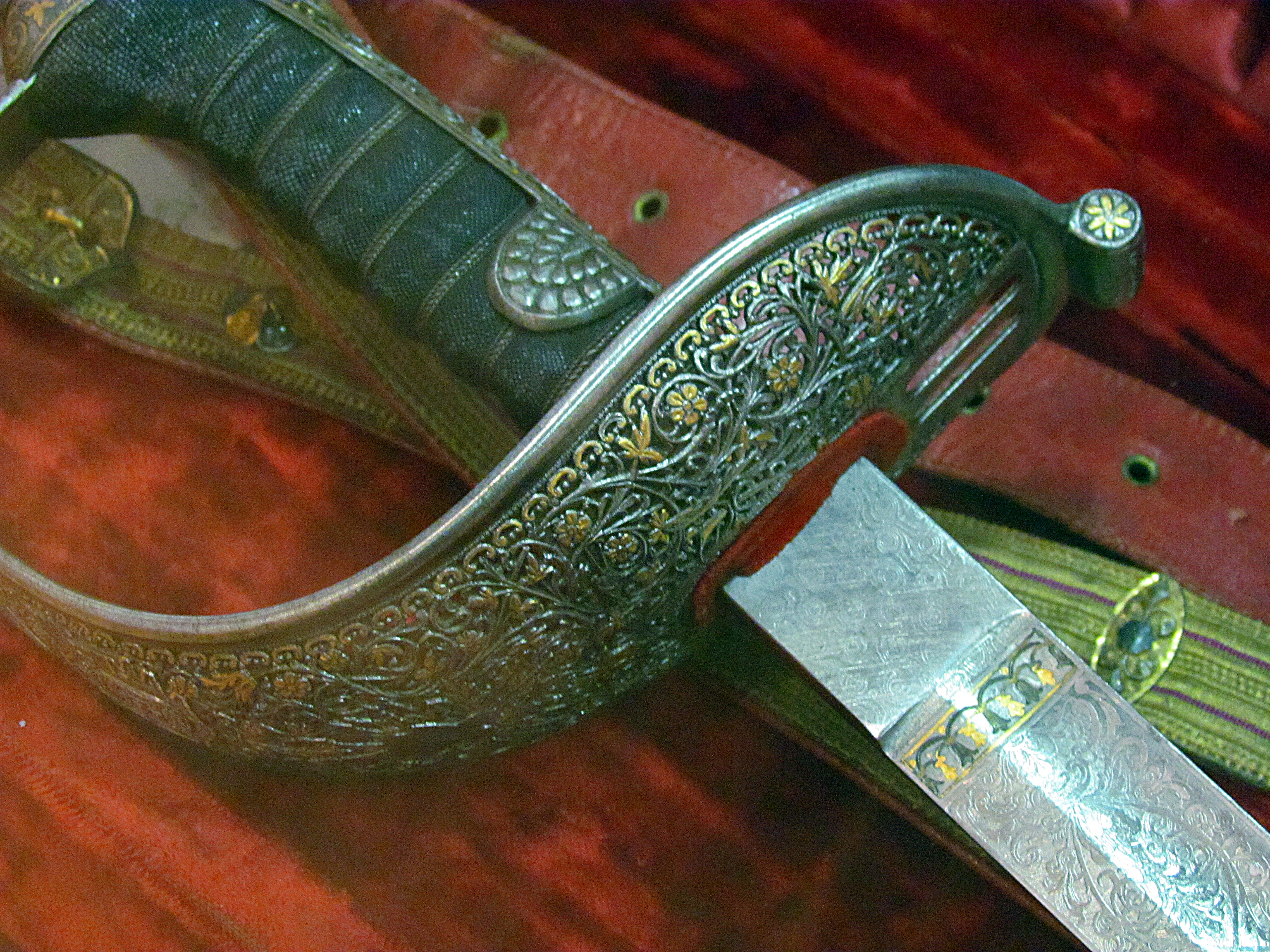 Sabre of Aleksandar Obrenović